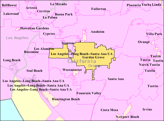 U.S. Census Bureau map of Garden Grove